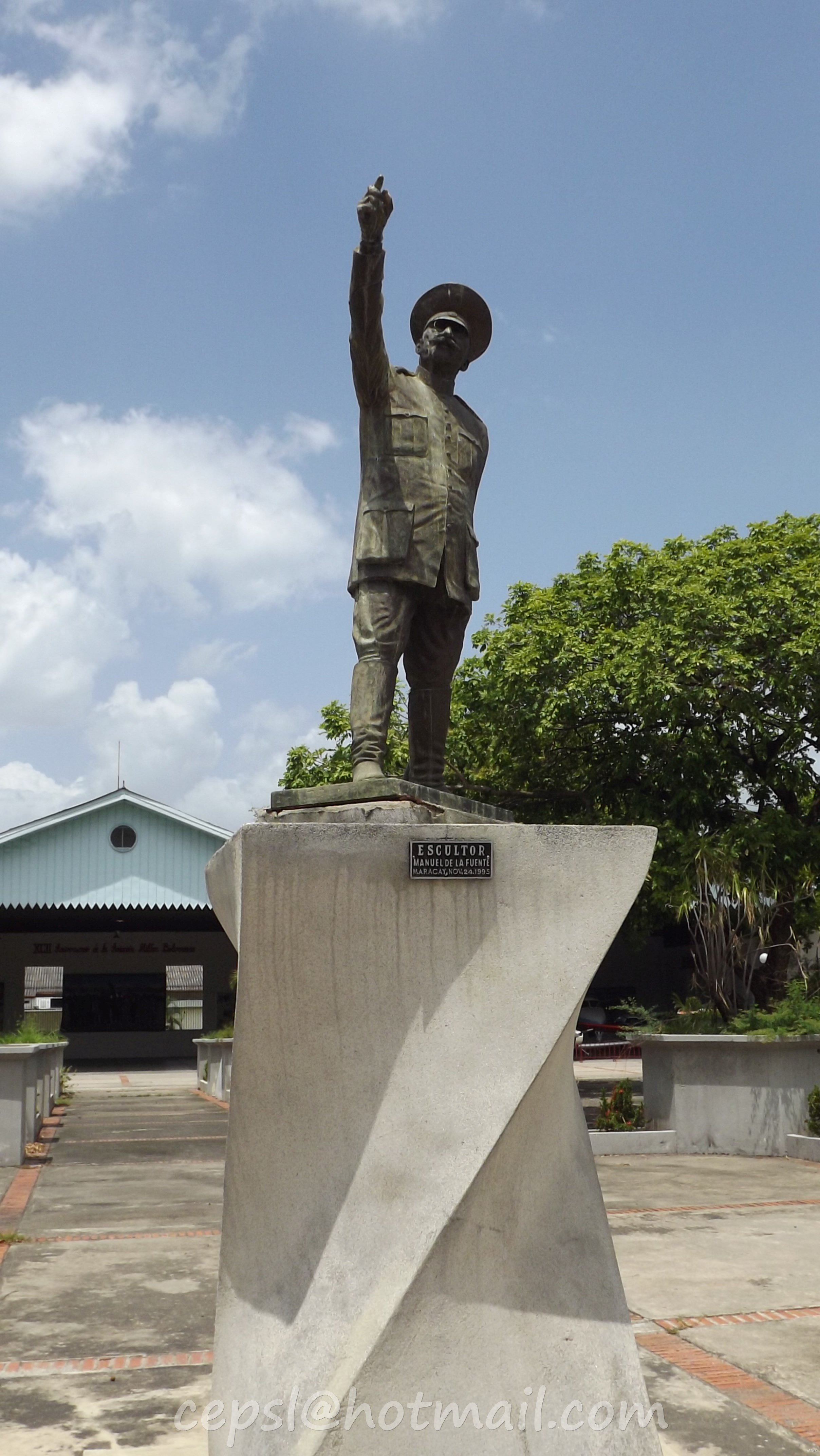 Monument in honor of General Juan Vicente Gomez in the Central Plaza of the Aeronautical Museum Luis Hernán Paredes de Maracay